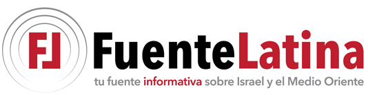 Logo Fuente Latina